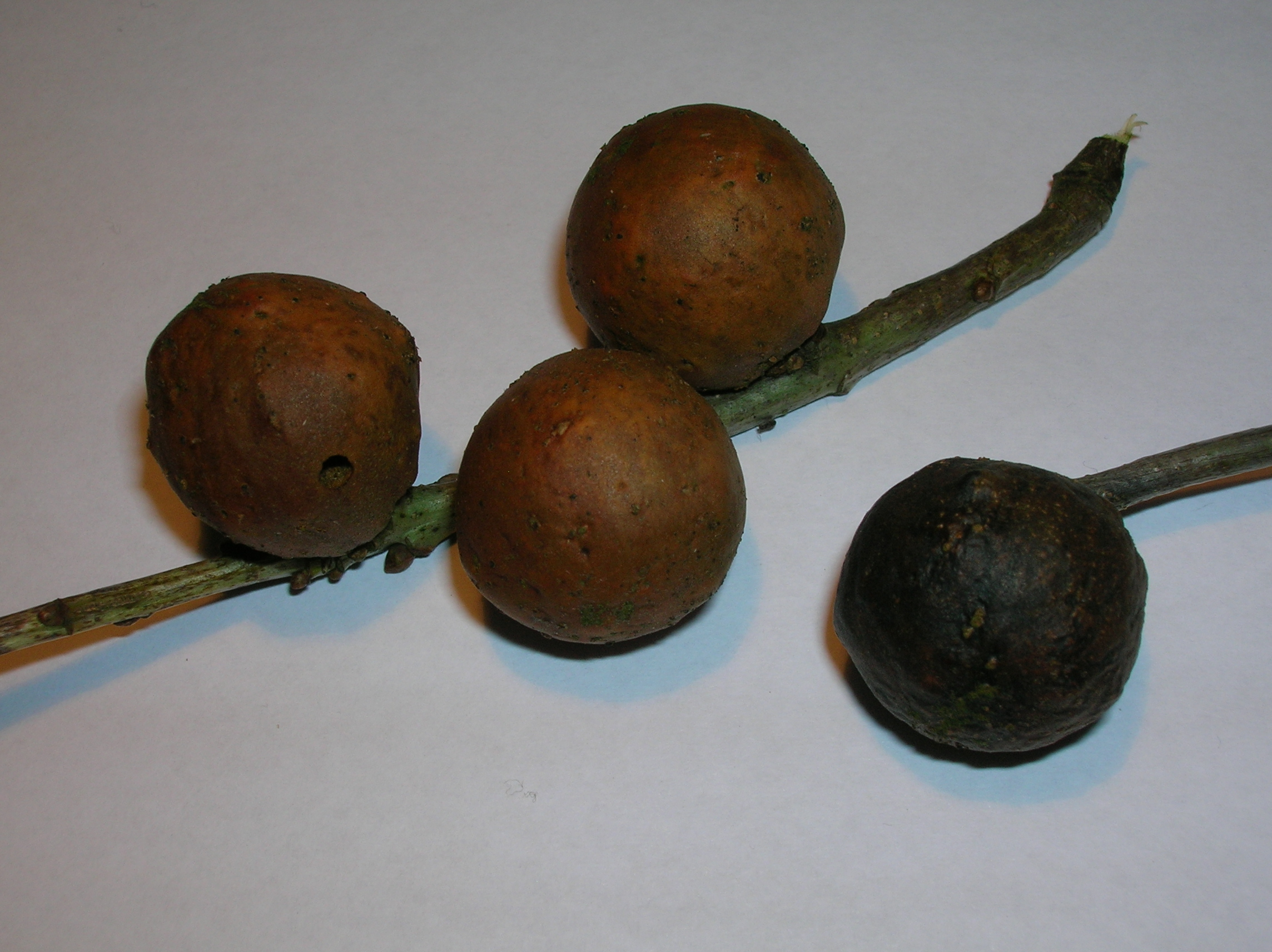 Oak Marble galls, one with Phoma gallorum fungal attack. Chapeltoun, North Ayrshire, Scotland.